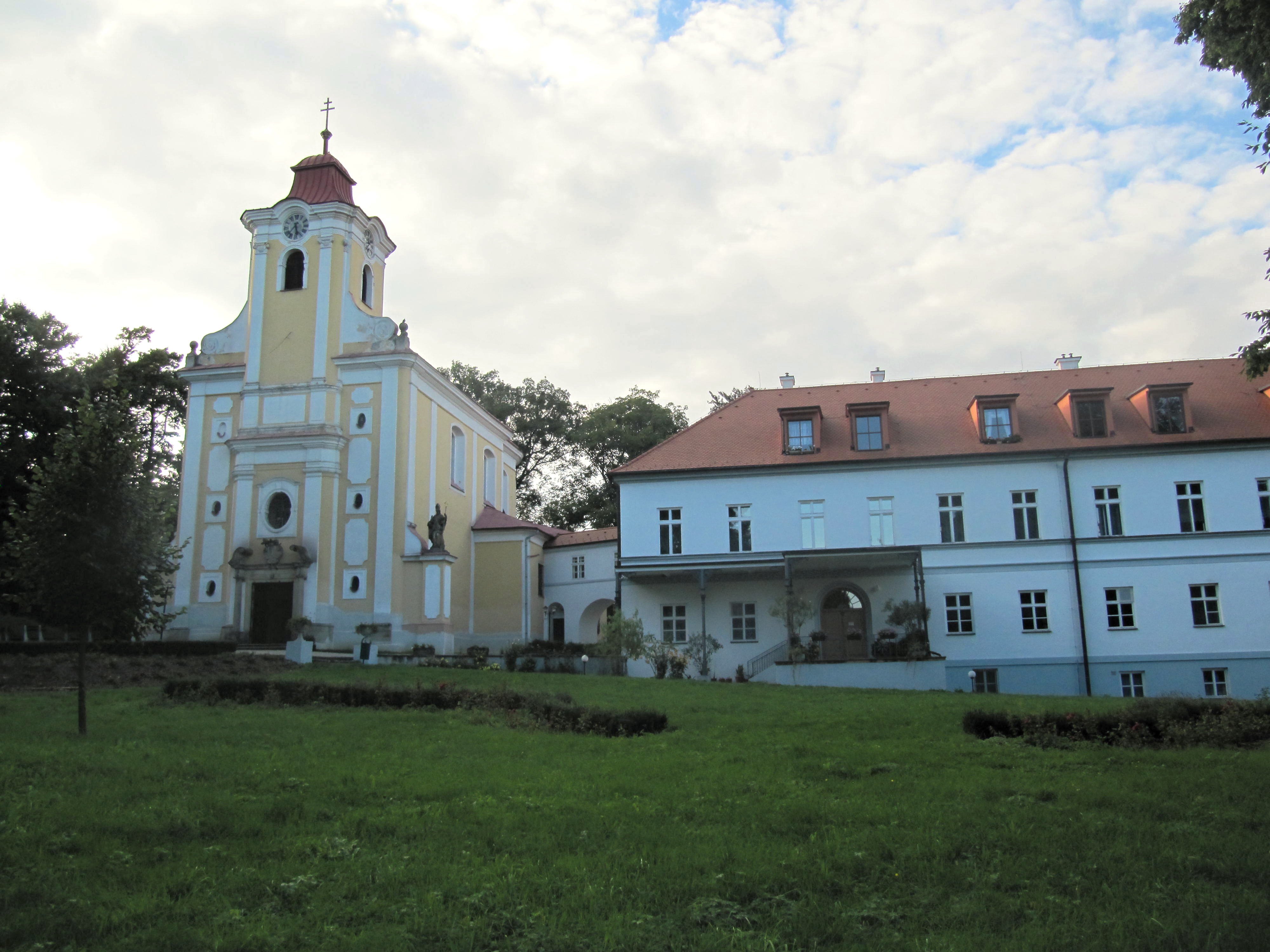 Pohořelice, Zlín District, Czech Republic. Church and castle.